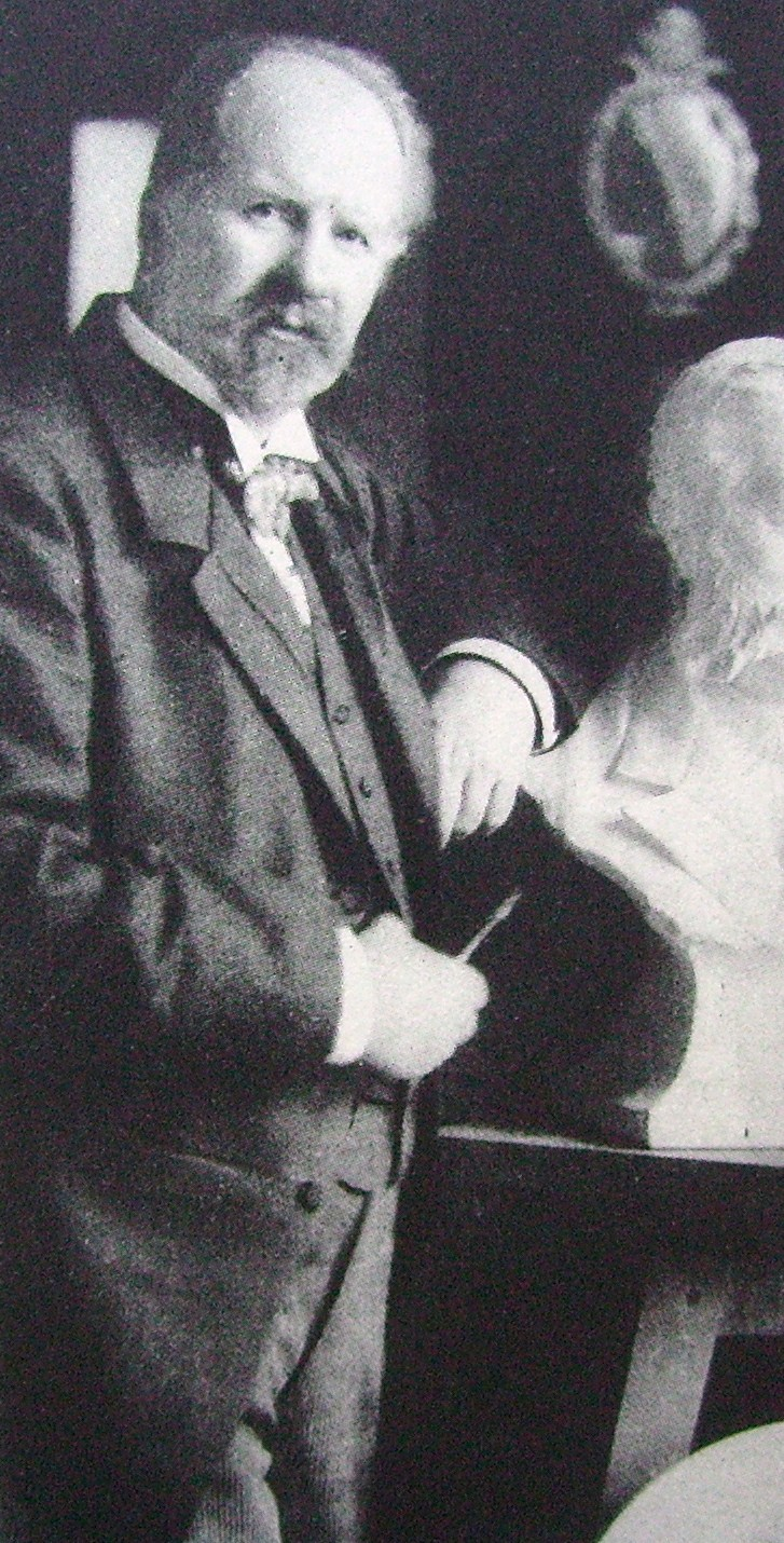 Picture of Sven Andersson, Swedish sculptor